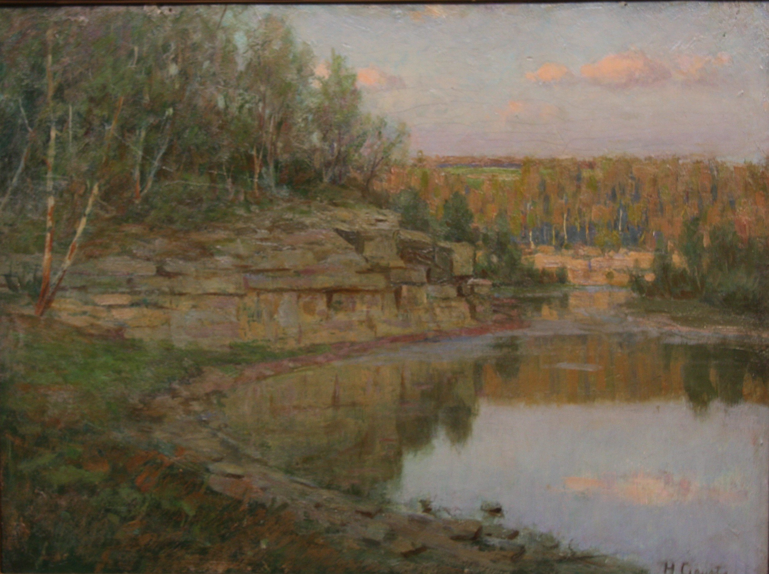 Southern Minnesota Lake Scene painted by Herbjorn Gausta while at Luther College prior to 1888 when he moved to Minneapolis where he lived until his death in 1924. Displayed as part of the permanent collection of Vesterheim Norwegian-American Museum in Decorah, Iowa, United States, where it was photographed by the uploader.